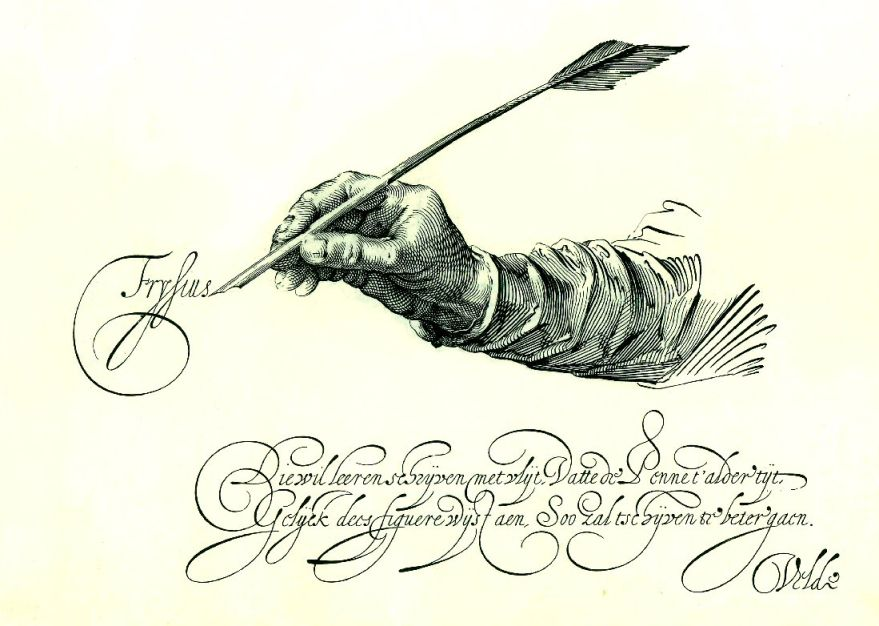 Calligraphy by Jan Van De Velde; from Spieghel der schrijfkonste, Rijksmuseum Amsterdam (inv.no. BIBL-329-B-19). Translation of the inscription: Frysius To learn to write with diligence, means holding the pen at lengths, like this figure tends; writing will go even better hence. Velde